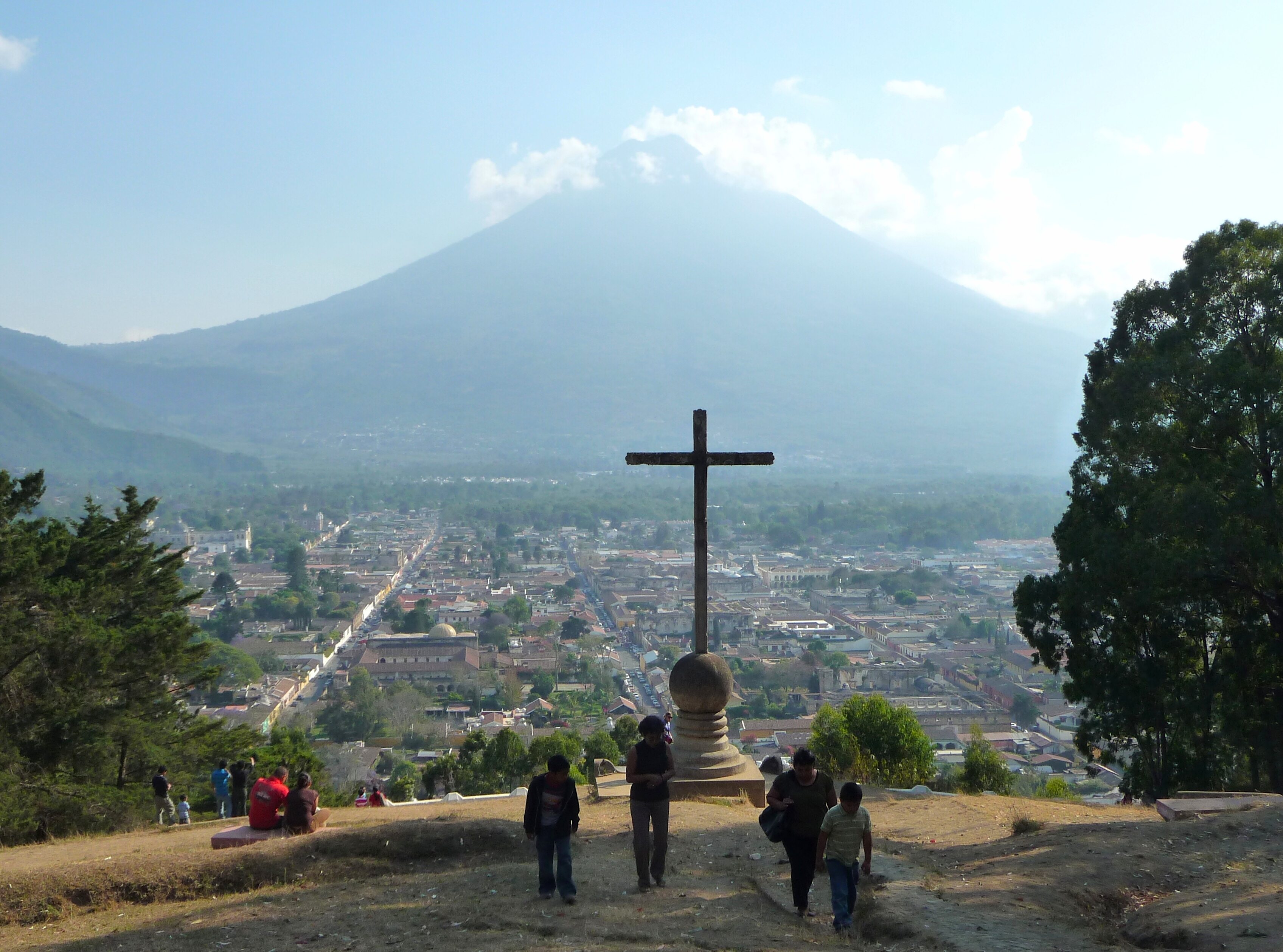 View of the city of Antigua and the Agua volcano from the Cerro de la Cruz hill (Sacatepéquez, Guatemala).